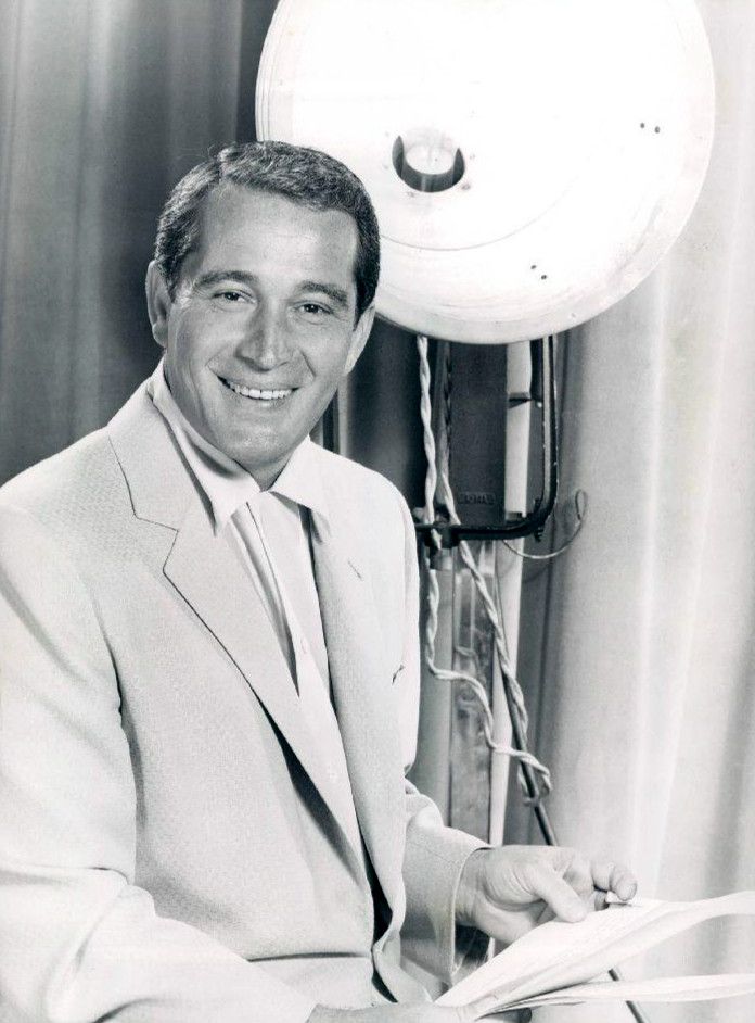 Publicity photo of Perry Como as he began the second season of his television program The Perry Como Show.